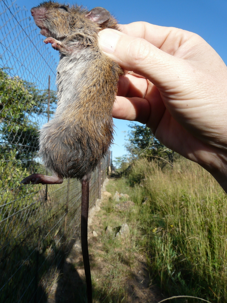 Red veld rat (Aethomys chrysophilus), Dambari Field Station (Matabeleland, Zimbabwe)